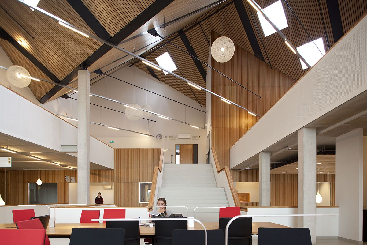 Interior